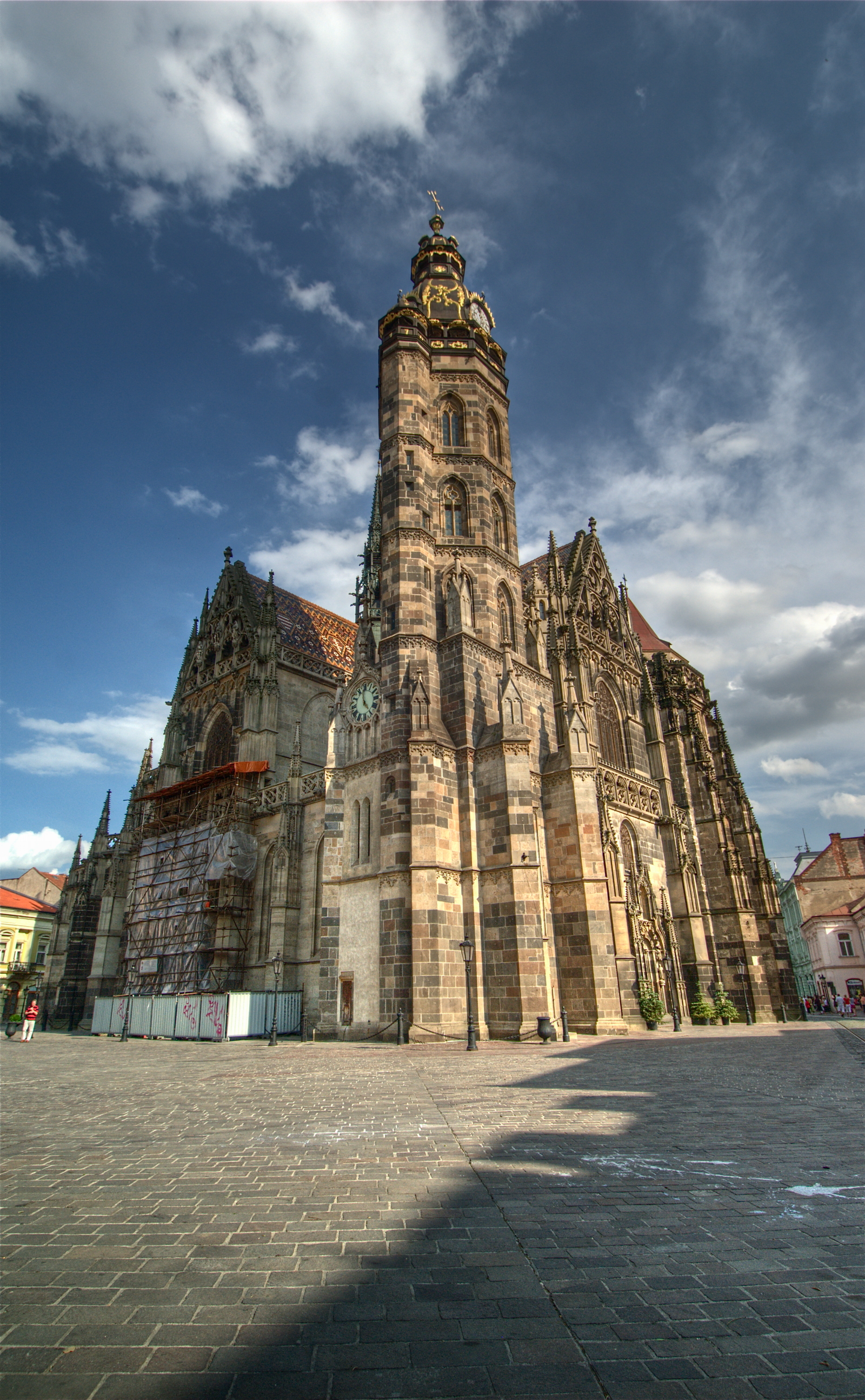 Cathedral of St. Elizabeth in Košice, Slovakia. July 2009.